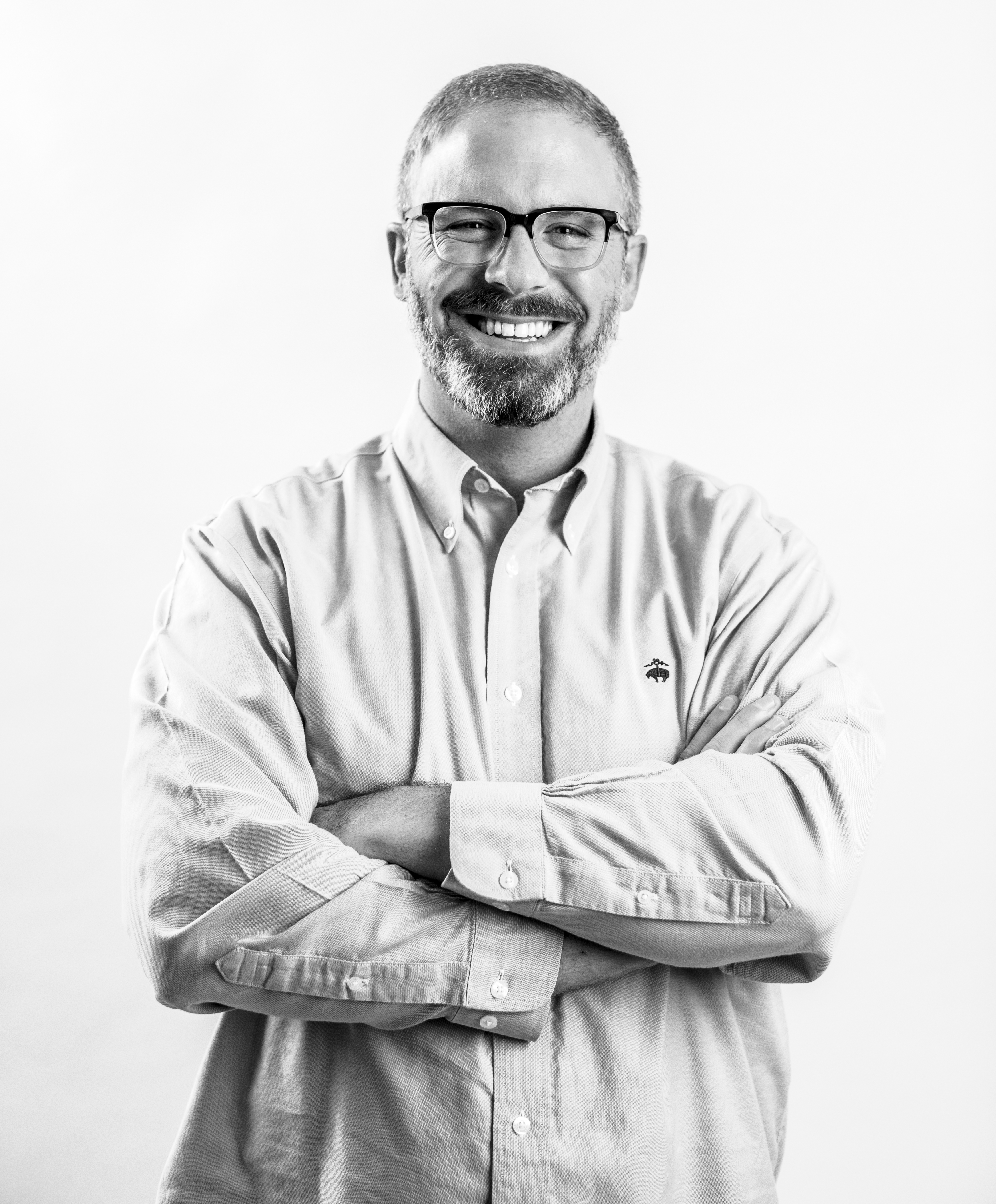 Dallas Sonnier Press Photo - Content falls under the Creative Commons Attribution–ShareAlike License 3.0 (CC BY-SA 3.0 US).